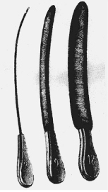 Hegar bougies, Hegar’s dilatators, Hegar’s dilators